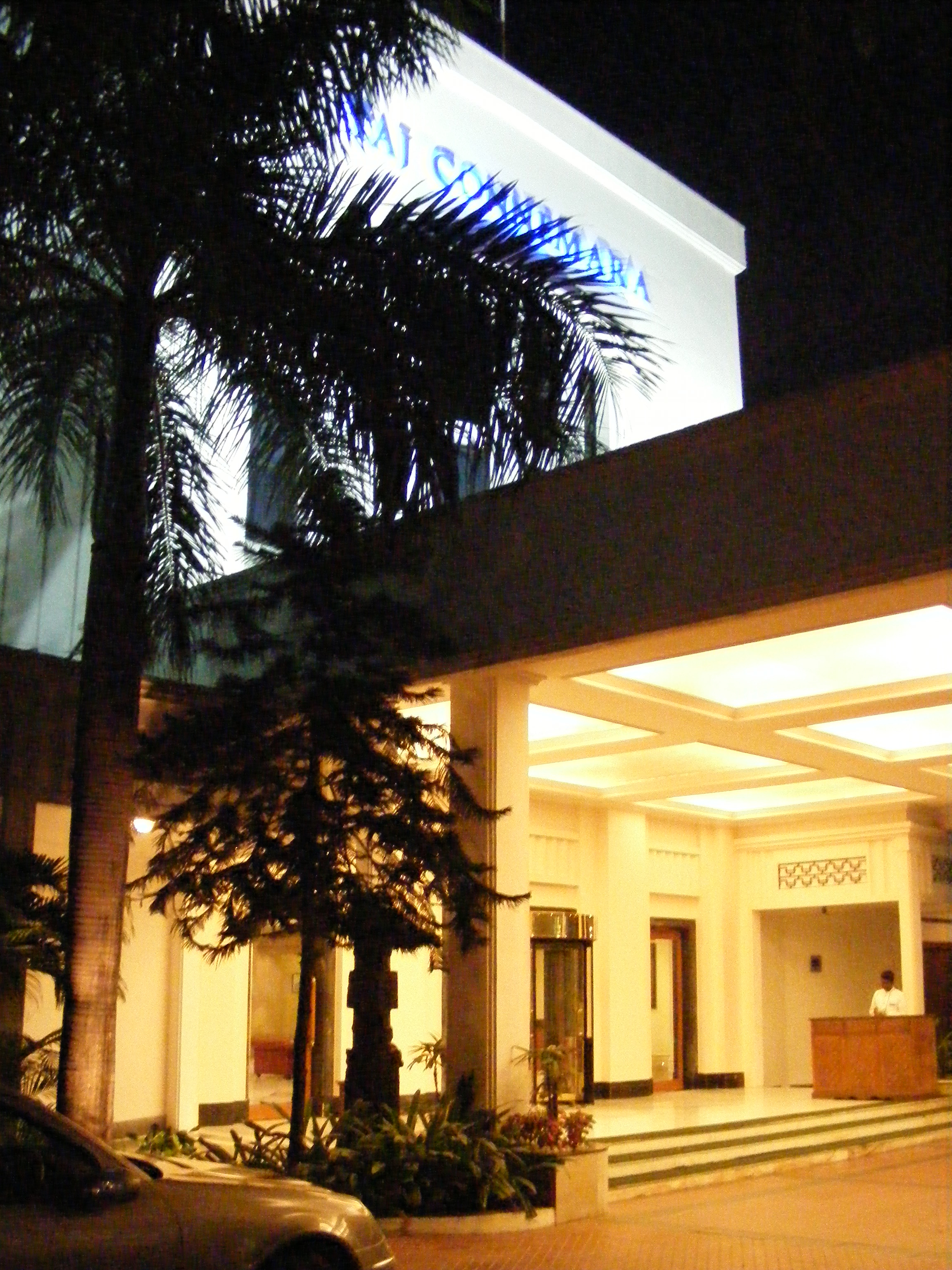 This is the hotel named Taj Connemara from Chennai, India.